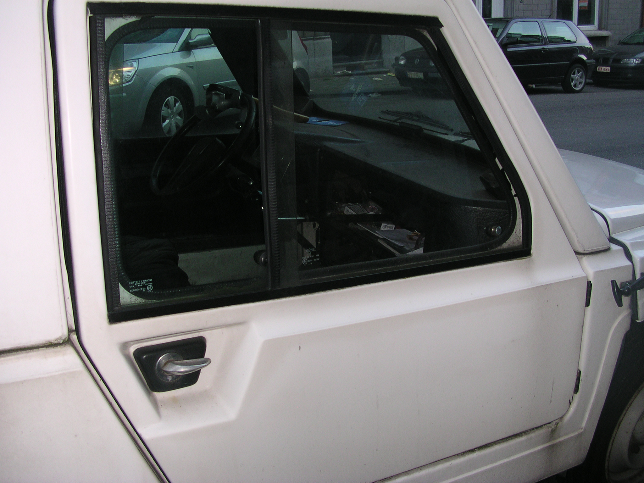 Vanclee Mungo kit on Citroën 2CV, seen in Liege